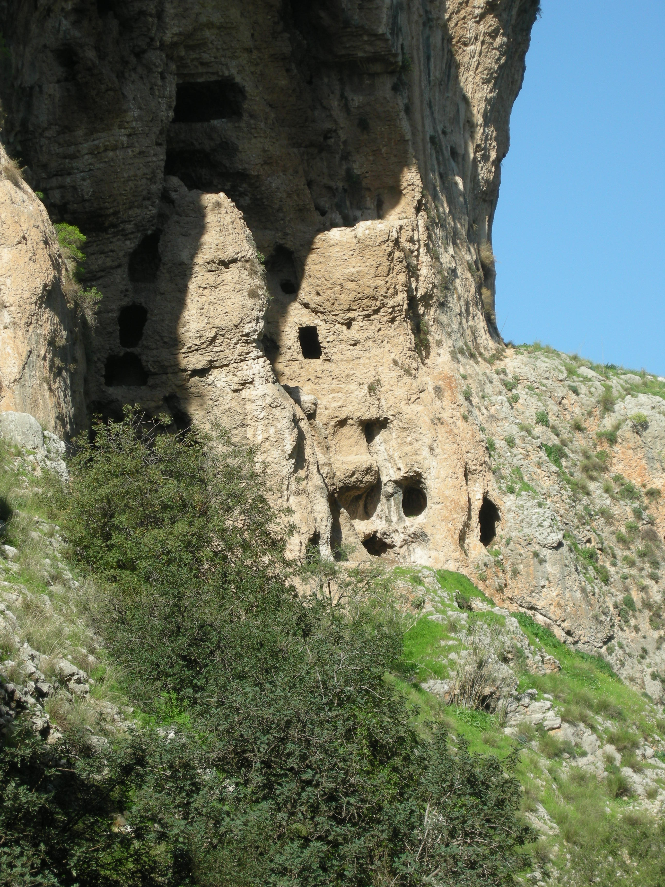 Church of All Nations (Jerusalem) Photos taken near Bethlehem of Galilee